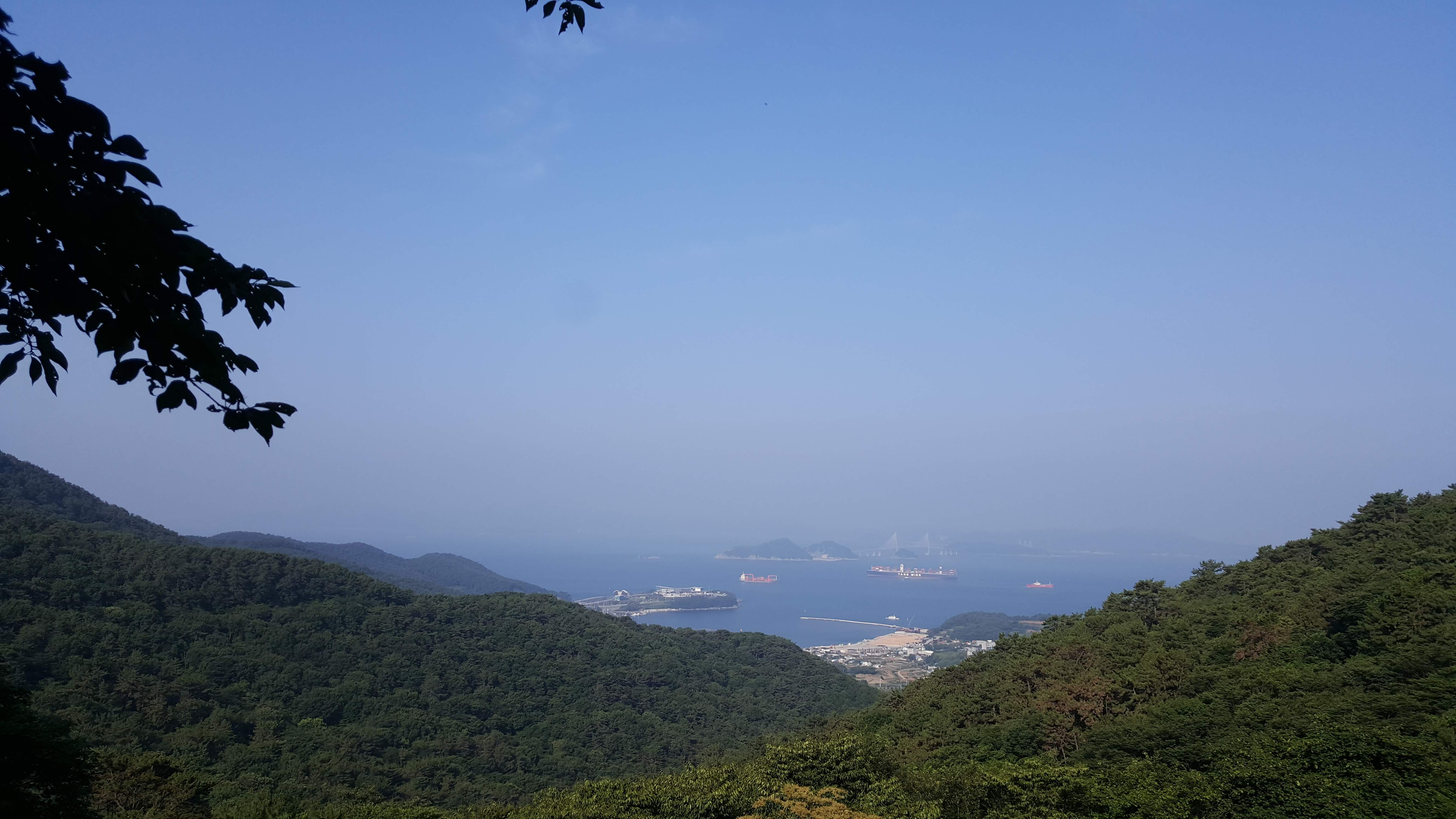 Geoga bridge seen from Gadeokdo